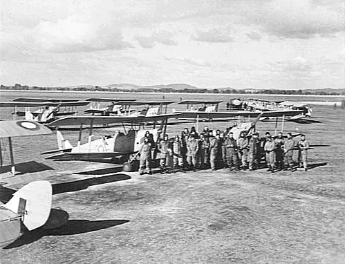 Benalla, Victoria. A group of instructors and trainee pilots at No. 11 Elementary Flying Training School, RAAF Benalla. On the airfield behind them are the unit's De Havilland DH82 Tiger Moth training aircraft.